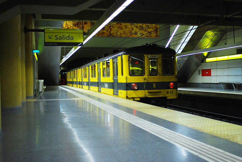 The H Line of the Buenos Aires Underground, with classical Siemens-Schuckert formation at the platform of Venezuela station (Argentina, 2008 November). Jpg